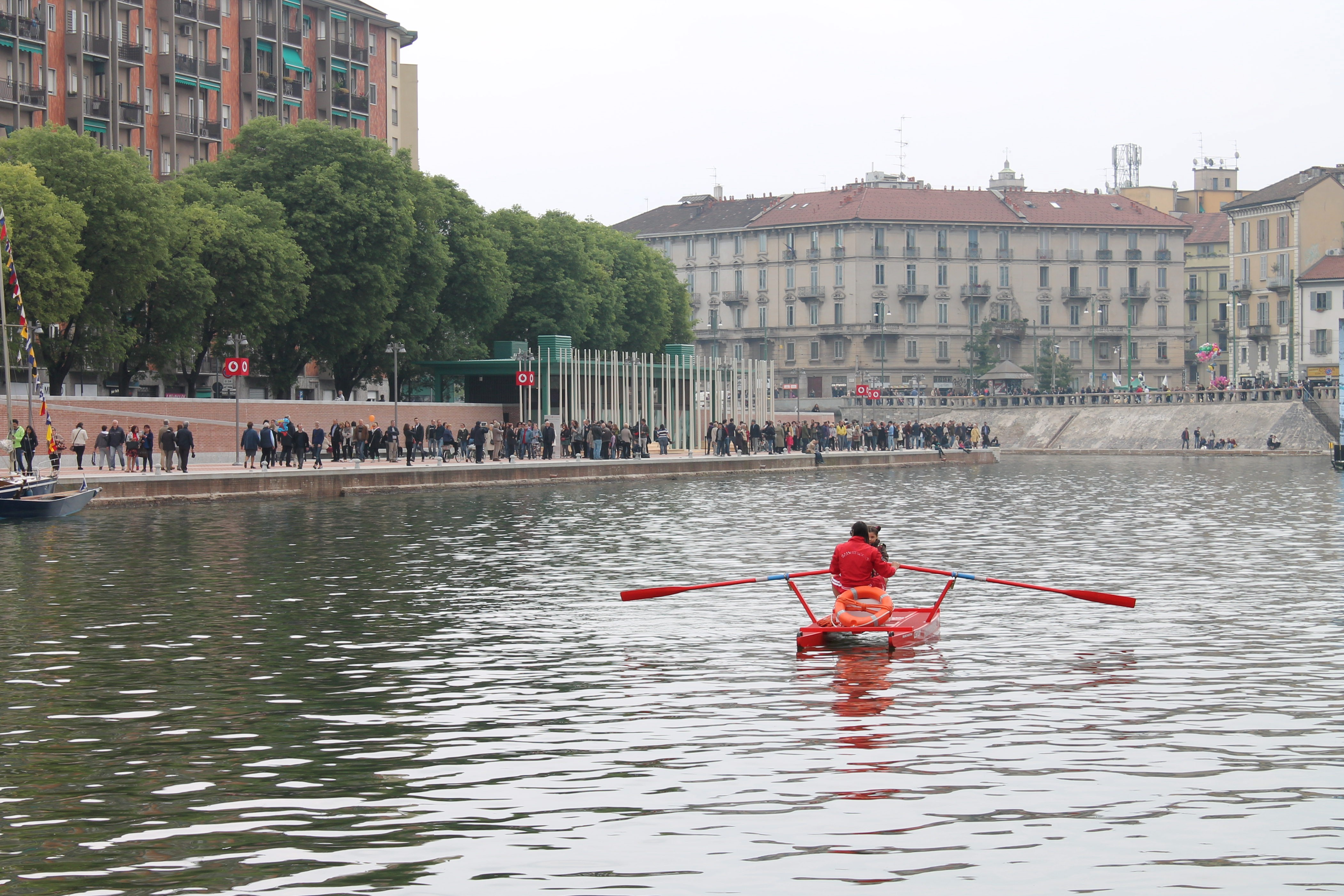 The Darsena in Milan - ITALY